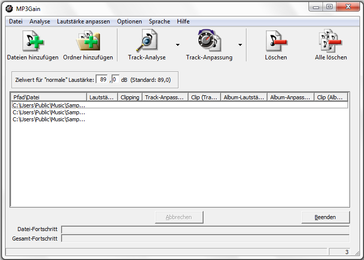 MP3Gain 1.2.5 running on Windows 7 x64